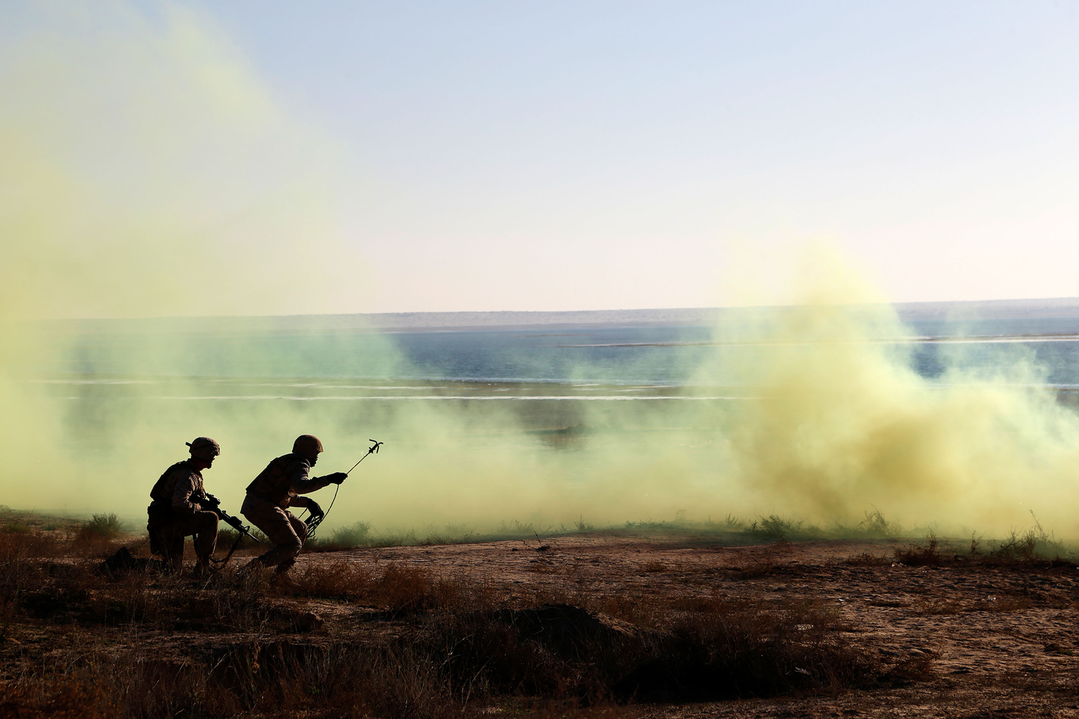 U.S. 5TH FLEET AREA OF RESPONSIBILITY (Dec. 12, 2014) A U.S. Marine with the 1st Combat Engineer Battalion detachment, Battalion Landing Team 2nd Battalion, 1st Marines, 11th Marine Expeditionary Unit (MEU), shows a Saudi Marine how to check for tripwires during a bilateral obstacle breaching exercise as part of exercise Red Reef 15 in the U.S 5th Fleet area of responsibility, Dec. 12, 2014. Red Reef, is part of a routine theater security cooperation engagement plan between the U.S. Navy, U.S. Marine Corps and Royal Saudi Naval Forces that serves as an excellent opportunity to strengthen tactical proficiency in critical mission areas and support long-term regional security. (U.S. Marine Corps photos by Gunnery Sgt. Rome M. Lazarus/Released)